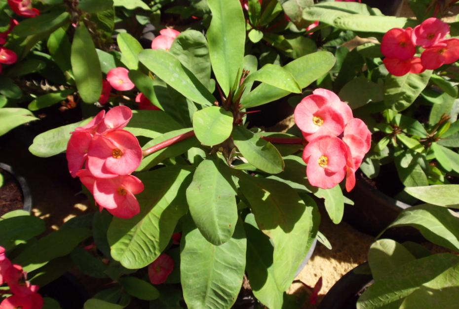 this photo taken in Cairo-Egypt